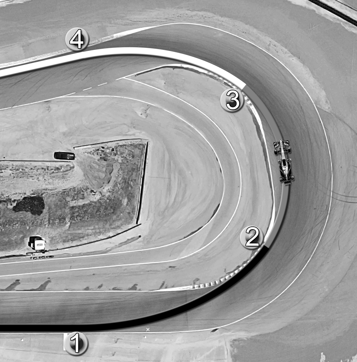 Double Apex